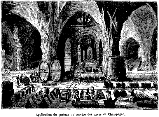 Decauville narrow gauge railway in champagne cellars